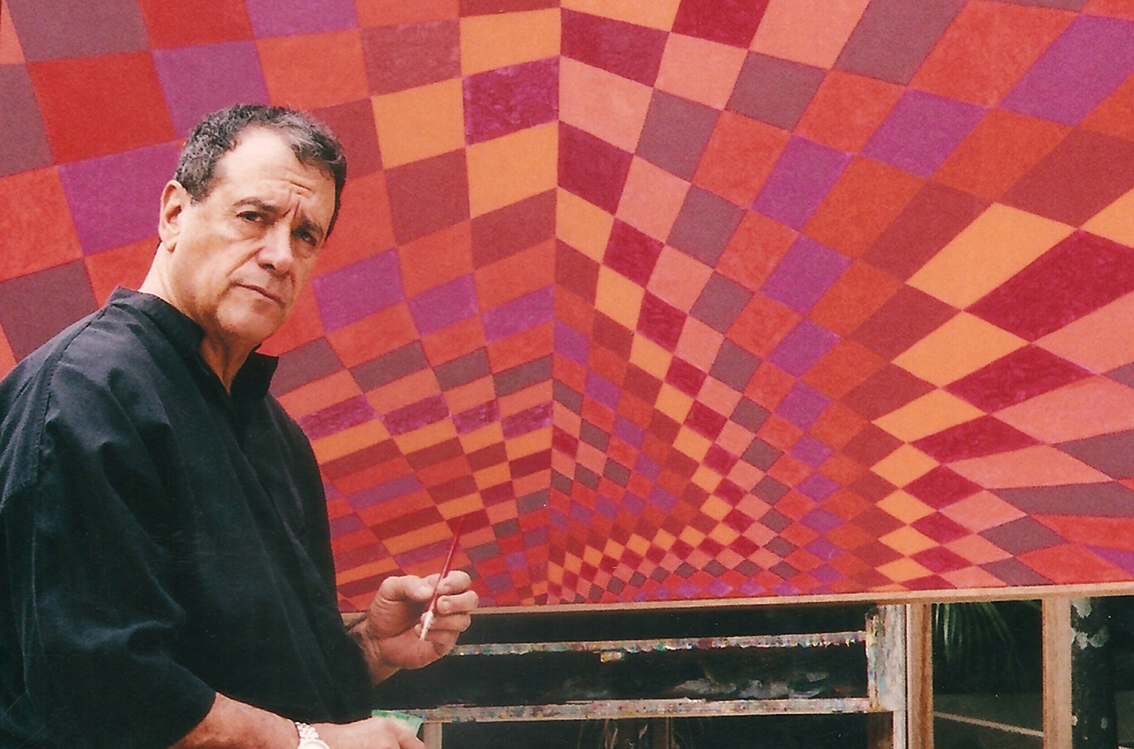 Aldir M